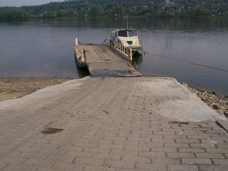 Begec Ferry which connects with village Banostar.